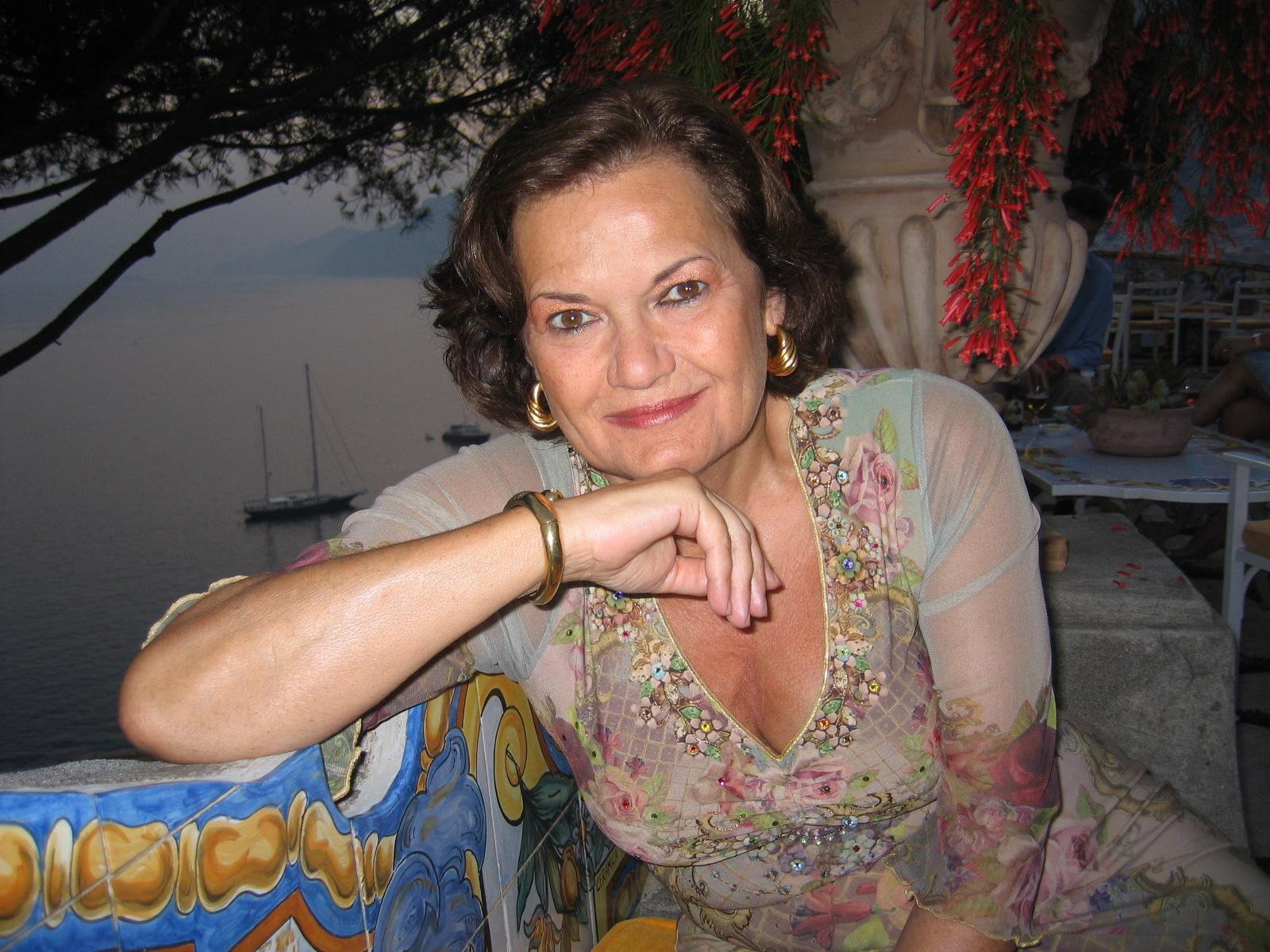 Elisabeth Roudinesco